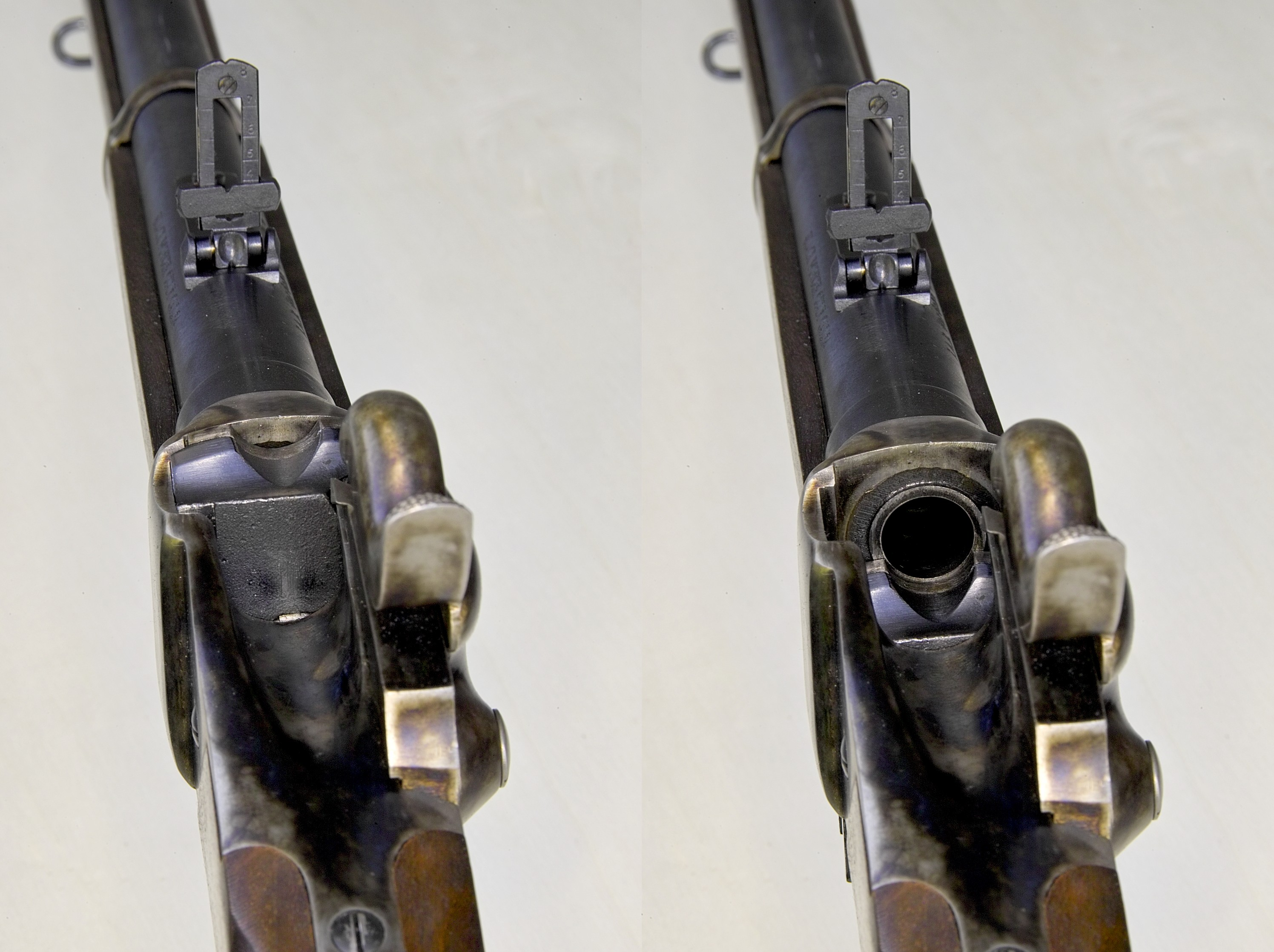 Sharps falling block action breechblock, left hand side: closed ; right hand side: open (Sharps rifle .45 cal, replica)